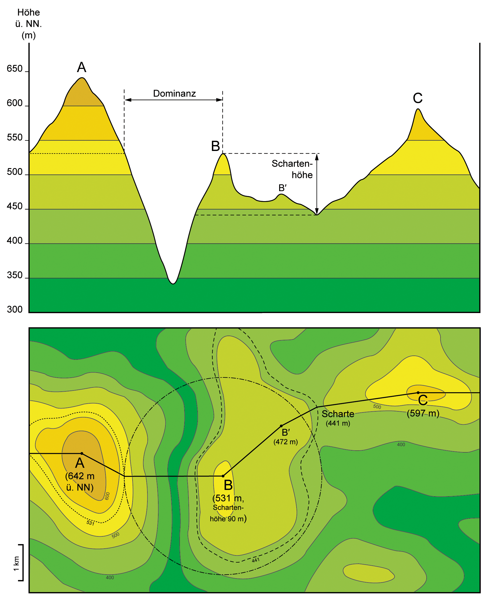 Top figure: Projection of terrain elevation along solid black line in the lower figure. Criteria for topographic isolation (Dominanz) and prominence (Schartenhöhe) are given for summit “B”. Bottom figure: Corresponding topographic map. Dashed black line corresponds to the lowest contour line encircling summit “B” but no higher summit. Black dash-dot line delineates circular area of topographic isolation of summit “B”. Dotted black line corresponds to the contour line on summit “A” which is tangent to the “isolation circle” of summit “B”.